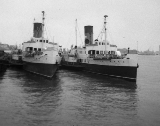 Isle of Wight ferries at Portsmouth Harbour British Rail ferries Sandown and Ryde.